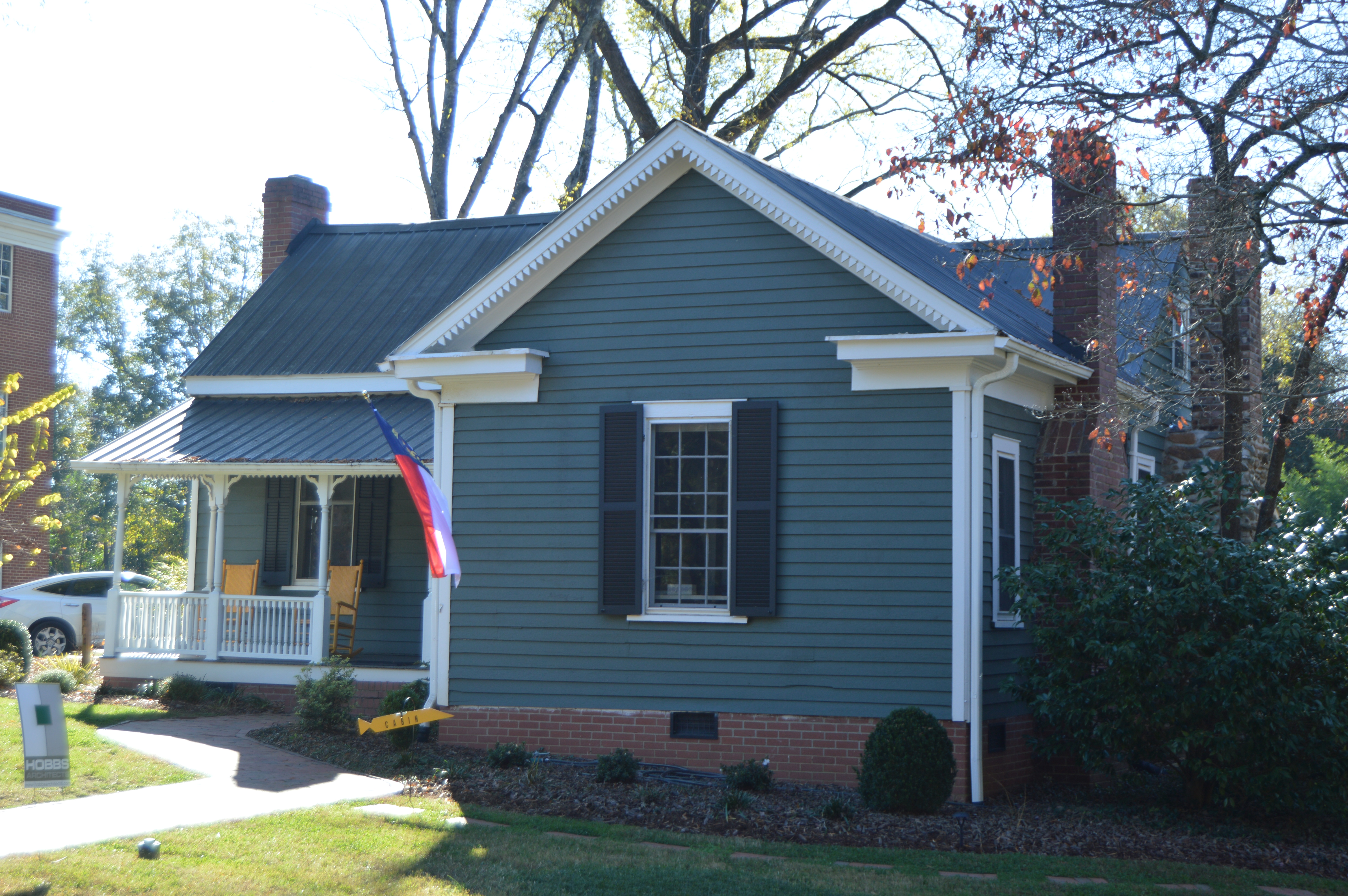 Front of the Lewis Freeman House, located at 205 W. Salisbury Street in Pittsboro, North Carolina, United States. Built before 1840 and significantly modified circa 1890, it is listed on the National Register of Historic Places, and it is part of a Register-listed historic district, the Pittsboro Historic District.